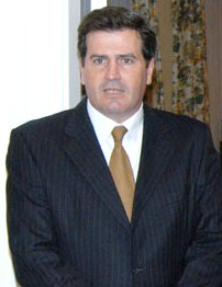 Pedro Bordaberry, uruguayan politician.